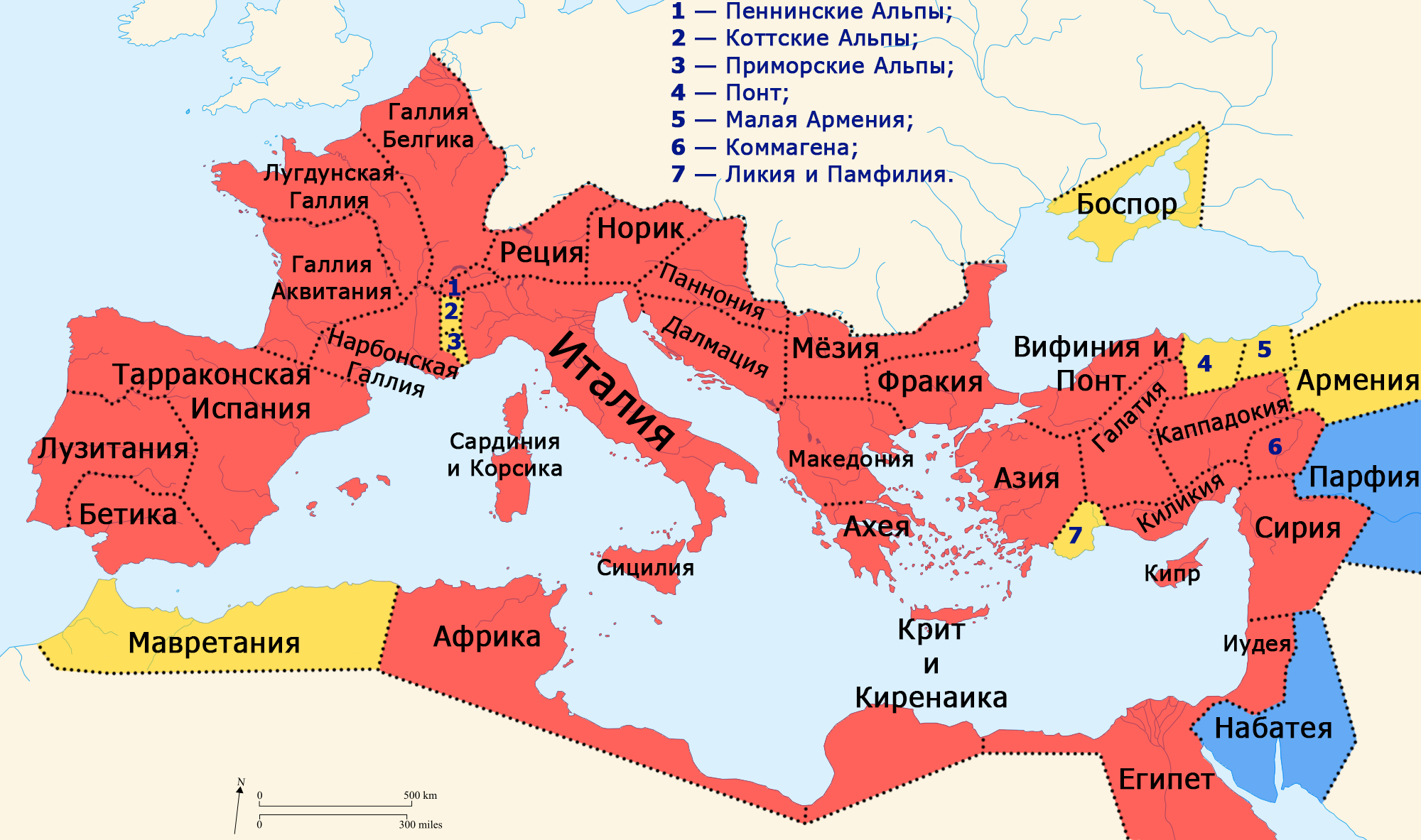 Map of the Roman Empire and neighboring states by the beginning of the reign of Gaius Caligula (37 AD). Italy and Roman provinces Independent countries Client states (Roman puppets)